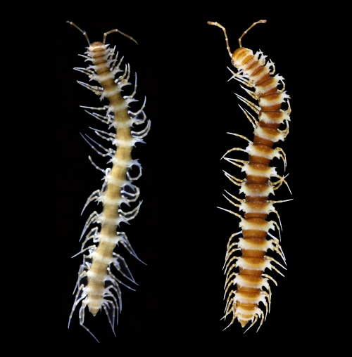 Desmoxytes sp. (Diplopoda, Polydesmida, Paradoxosomatidae)